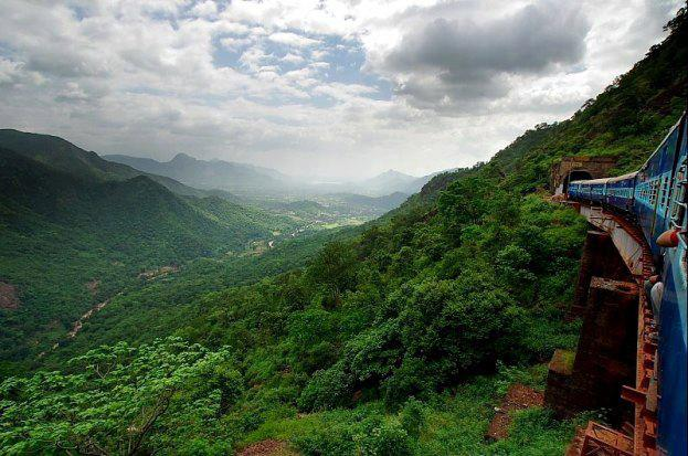 Aruku